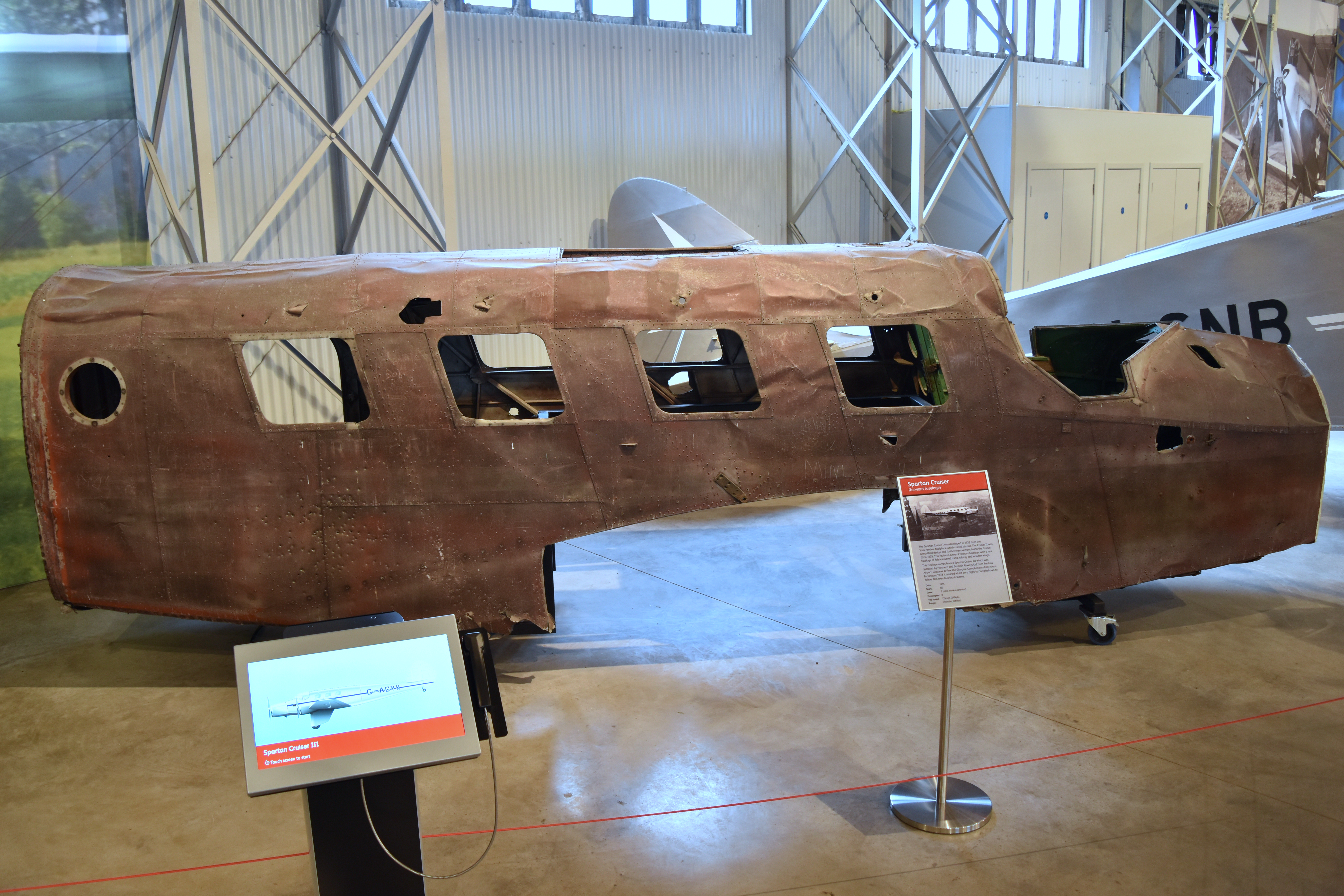 c/n 101. The Spartan Cruiser was a three-engined British passenger airliner from the mid-1930s and was developed from the one-off Saro-Percival Mailplane. After a single Cruiser I prototype, the refined MkII was more popular and thirteen were built, twelve in the UK and one in Yugoslavia. G-ACYK was one of only three of the later Cruiser III model built. From August 1936 flew with Northern and Scottish Airways, based at Renfrew Airport in Glasgow. On 14th January 1938, while on a non-passenger flight delivering film reels to Campbeltown, the aircraft suffered an altimeter fault and crashed into high ground at Hill of Stake, North Ayeshire. Both crew survived the crash without major injury. The stripped fuselage was recovered to the museum in 1973 and is the only surviving section of any Spartan Cruiser. Conserved but not restored, it is on display in the Civil Aviation Hangar at the National Museum of Flight (part of National Museums Scotland). East Fortune Airfield, East Lothian, Scotland. 13th September 2017